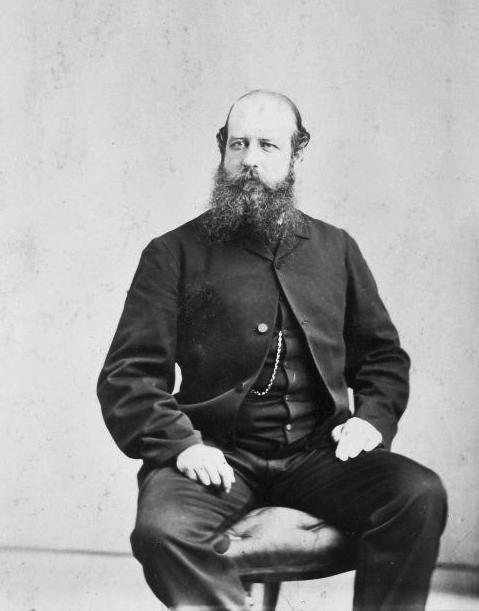 Photograph, James Bell Forsyth, Montreal, QC, 1865, by William Notman (1826–1891), Silver salts on paper mounted on paper — Albumen process — 8.5 x 5.6 cm. A rare portrait of the merchant James Bell Forsyth, the founder of the Cataraqui Estate in Sillery.